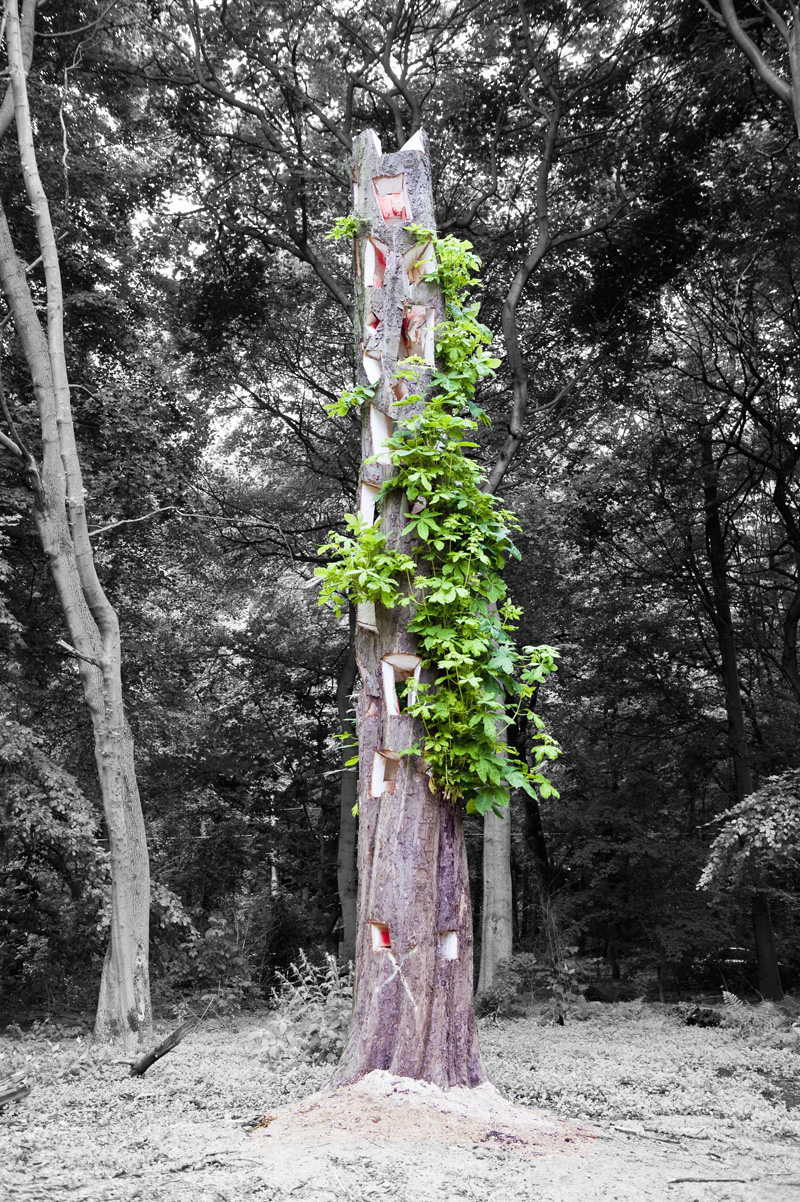 Heike Endemann. 2015. "Einsichten." Kunst am Baum. Baum Nr. 23, Gelsenkirchen, Germany.